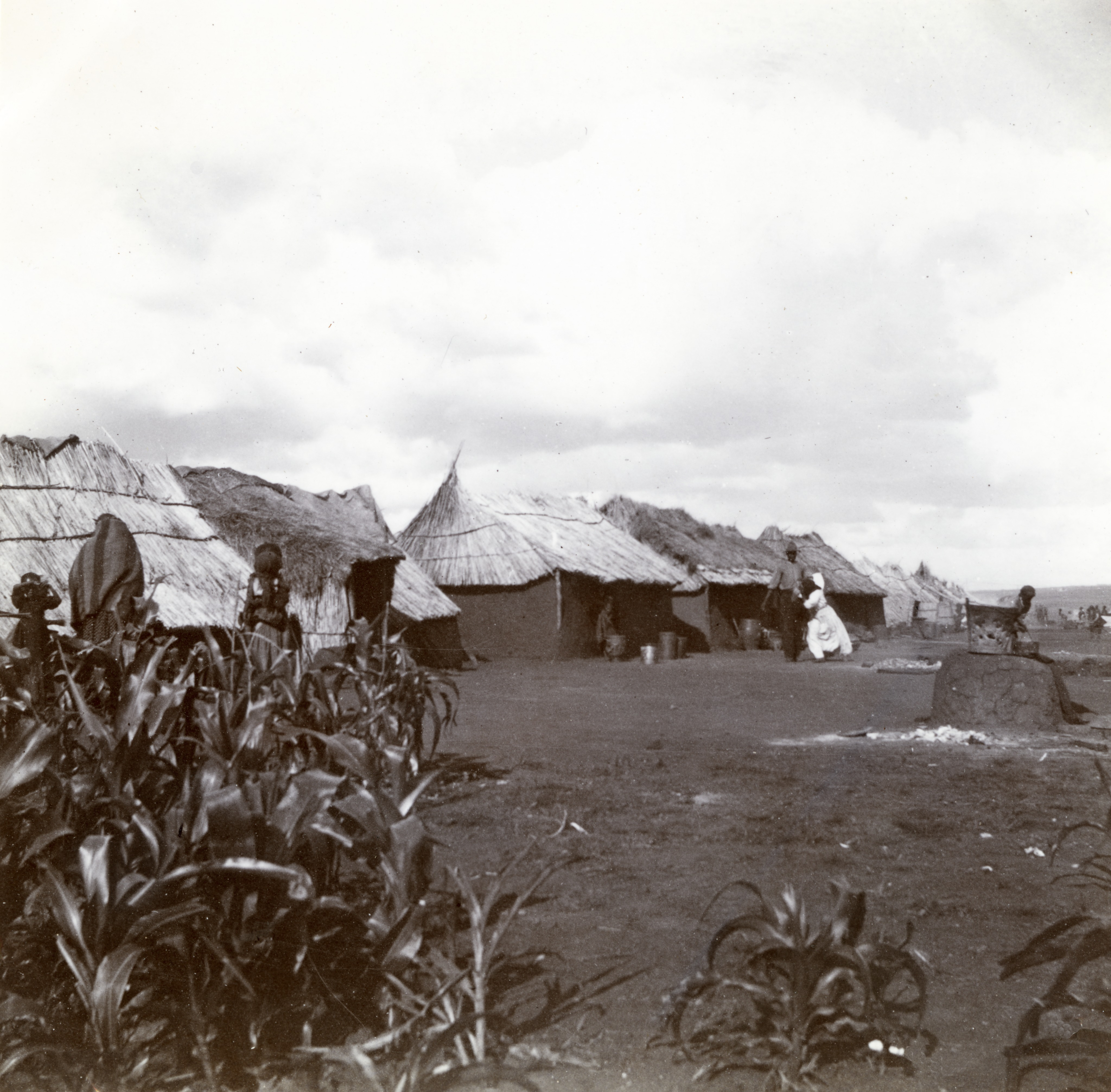 7MGF/E/1/143 Photograph, printed, paper, monochrome, camp view, manuscript text on reverse: 'Native Camp, Klerksdorp'. Inserted at page 133. Manuscript text below image: 'Kaffir location, Klerksdorp'.